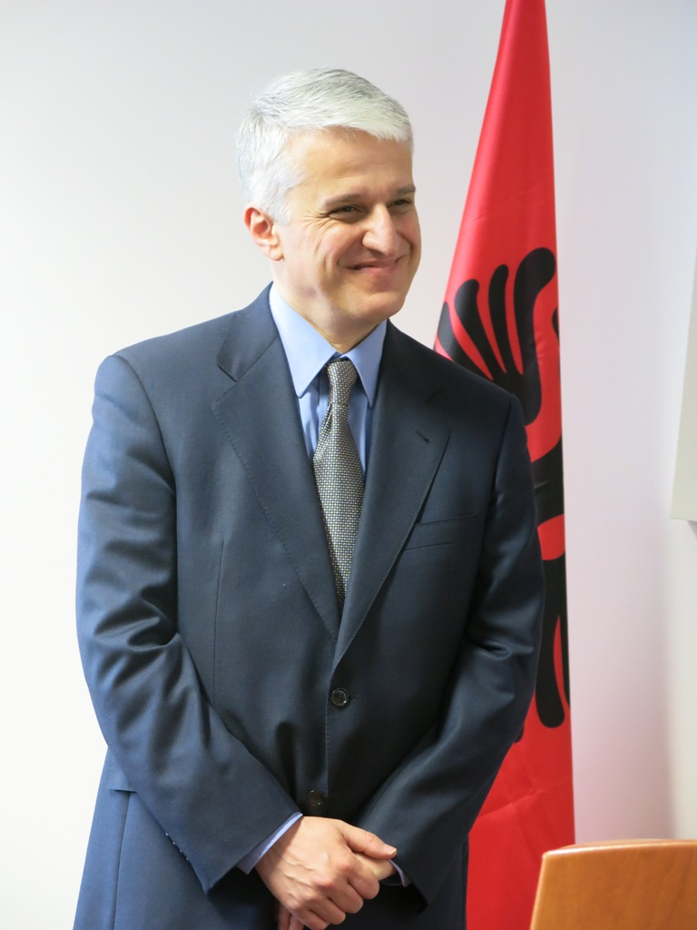 Photo of Pandeli Majko taken during his visit to Kosovo during his meeting with Hashim Thaci, Prime Minister of Kosovo.